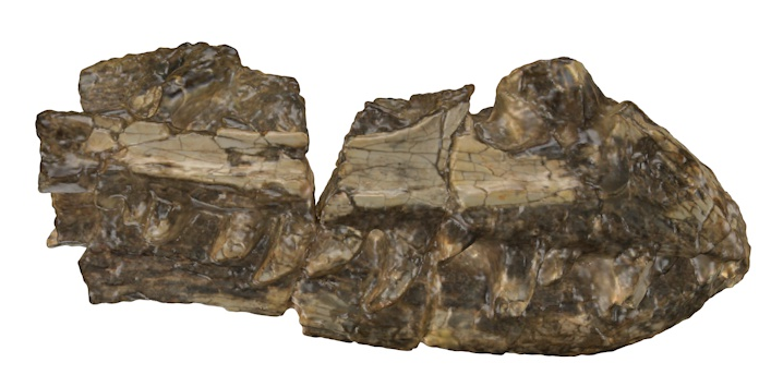 The model is from TriassicSterling who has had this licenced it under cc 0.4 which means i can remix it. Credit: The measure of a 0.9 ft skull was done using proportions between t-rex and this speculated. If you want me to take the name and the measure out I can do so. The way i got such measurement is by dividing the lengths of t-rex and suskityrannus then looking and doing the math for the skull (which is 9 inches). :)